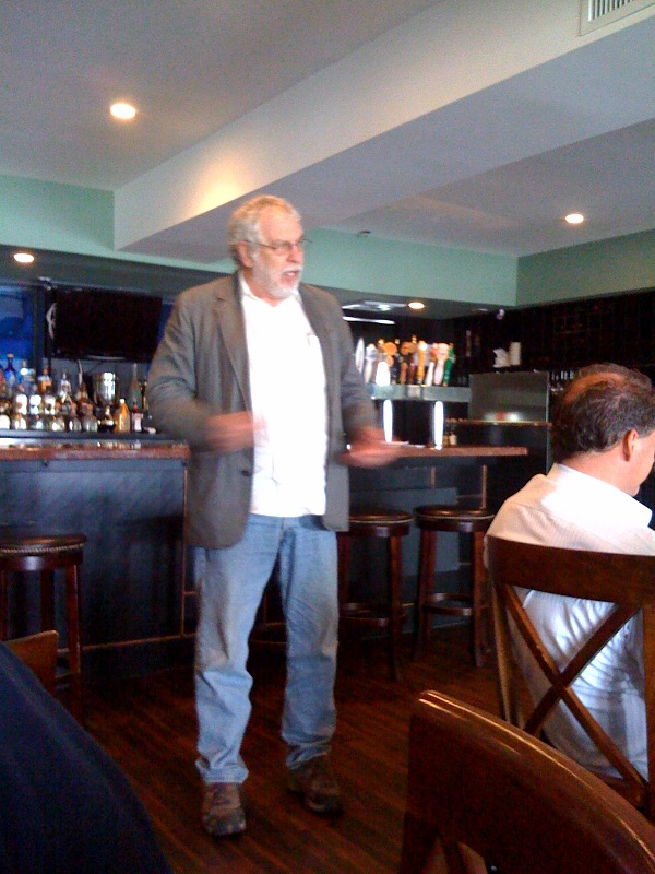 Nolan Bushnell in 2009.